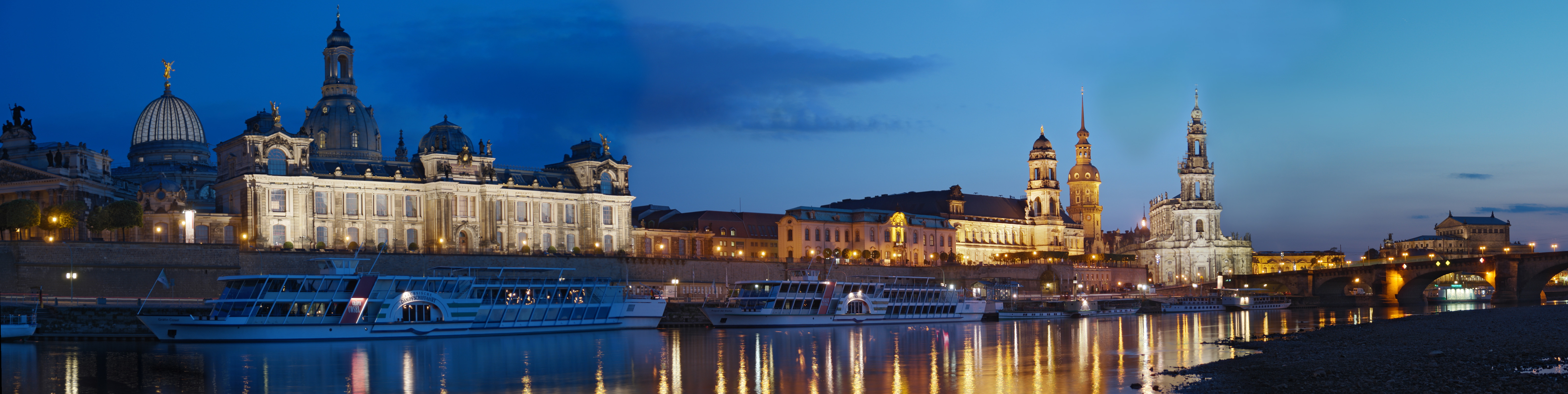 Dresden at night.